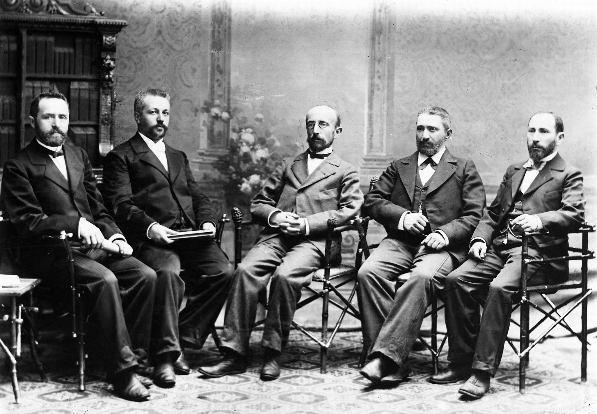 Asher Zvi Hirsch Ginsberg with Ze'ev Gluskin and the committee.